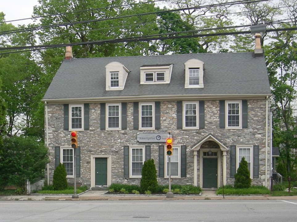 Plymouth Meeting General Store and Post Office (built circa 1826-27), 3-5 Germantown Pike, Plymouth Meeting, Whitemarsh Township, Montgomery Township, Pennsylvania.